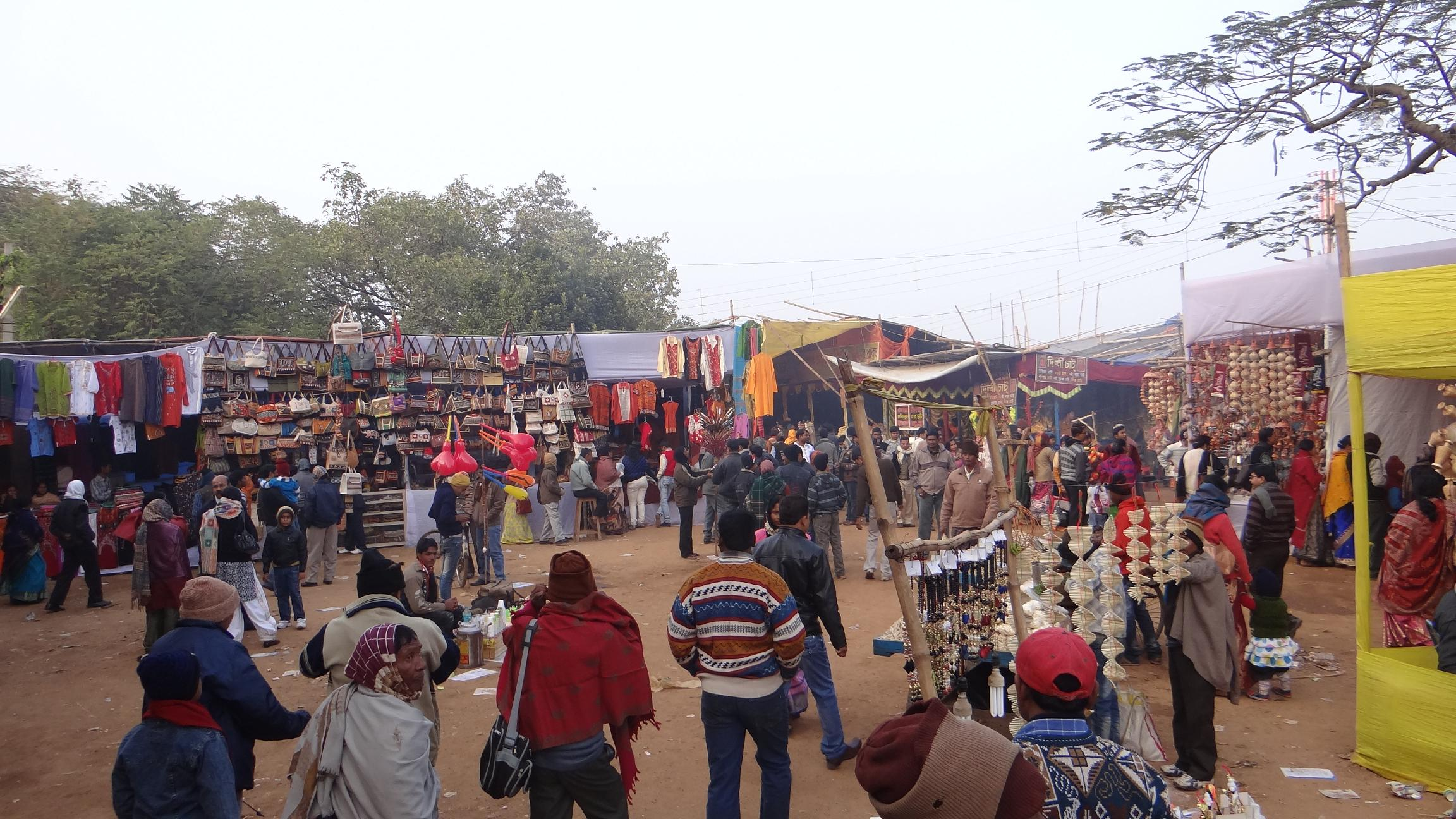 Poush Mela Bazaar Picture 23 12 2012 (DD MM YYYY) Taken by Me.